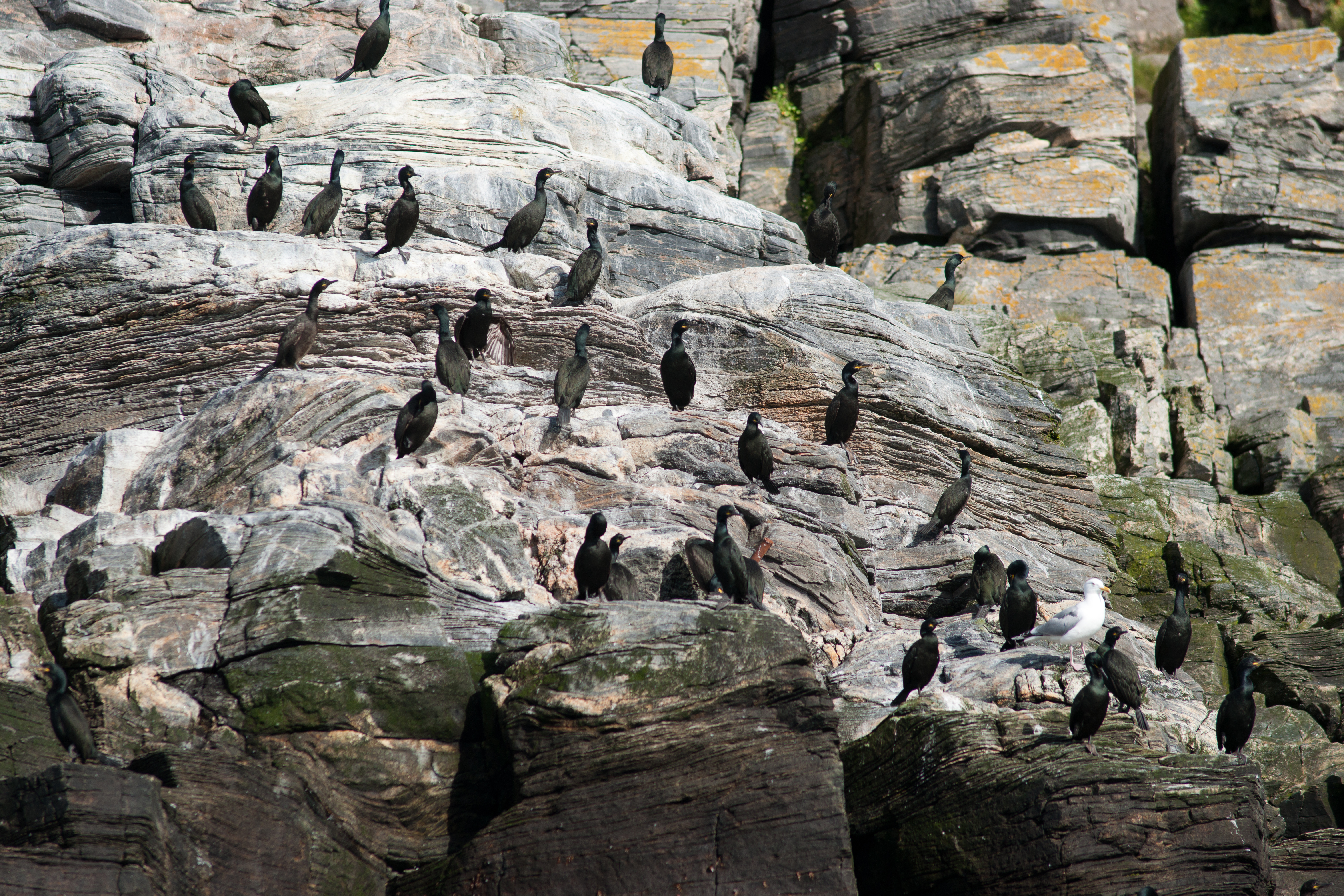 Gjesværstappan natural reserve, Finnmark, Norway. Cormorants.